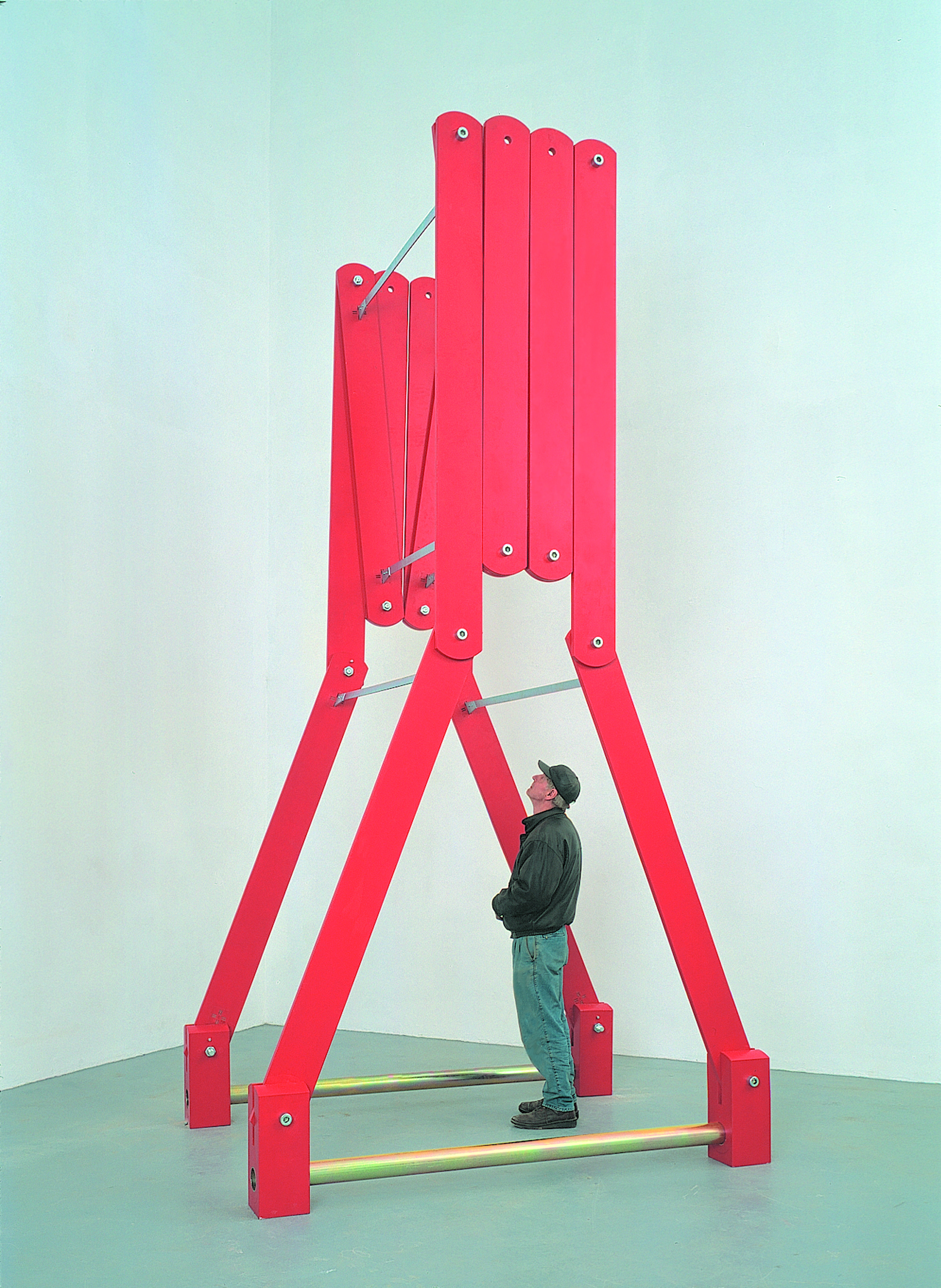 ELEMENT LVIII setting 11, 1997-98 wood, painted metal 444 x 230 x 186 cm